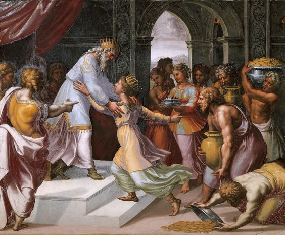 The Queen of Sheba